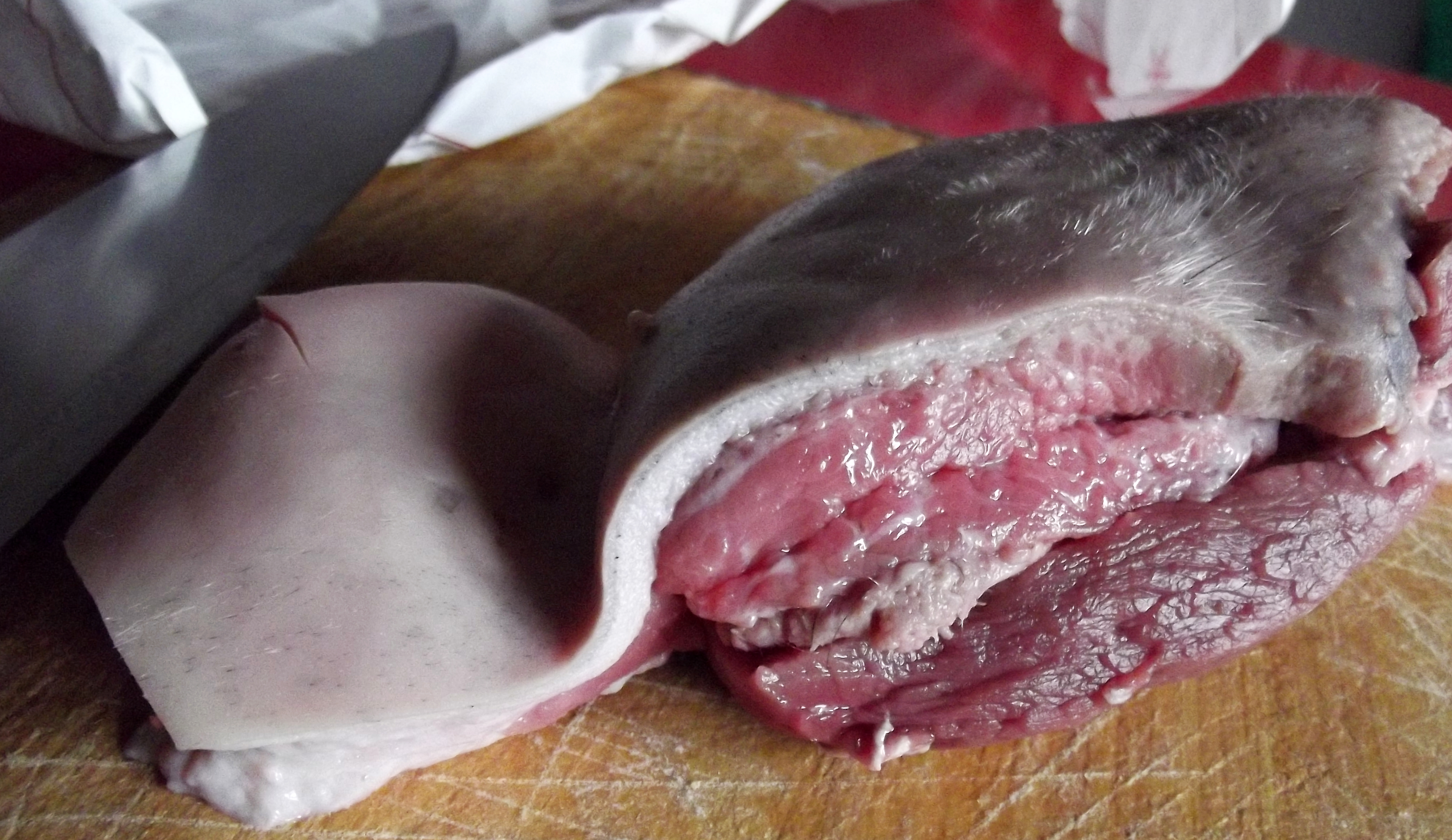 Raw beef head